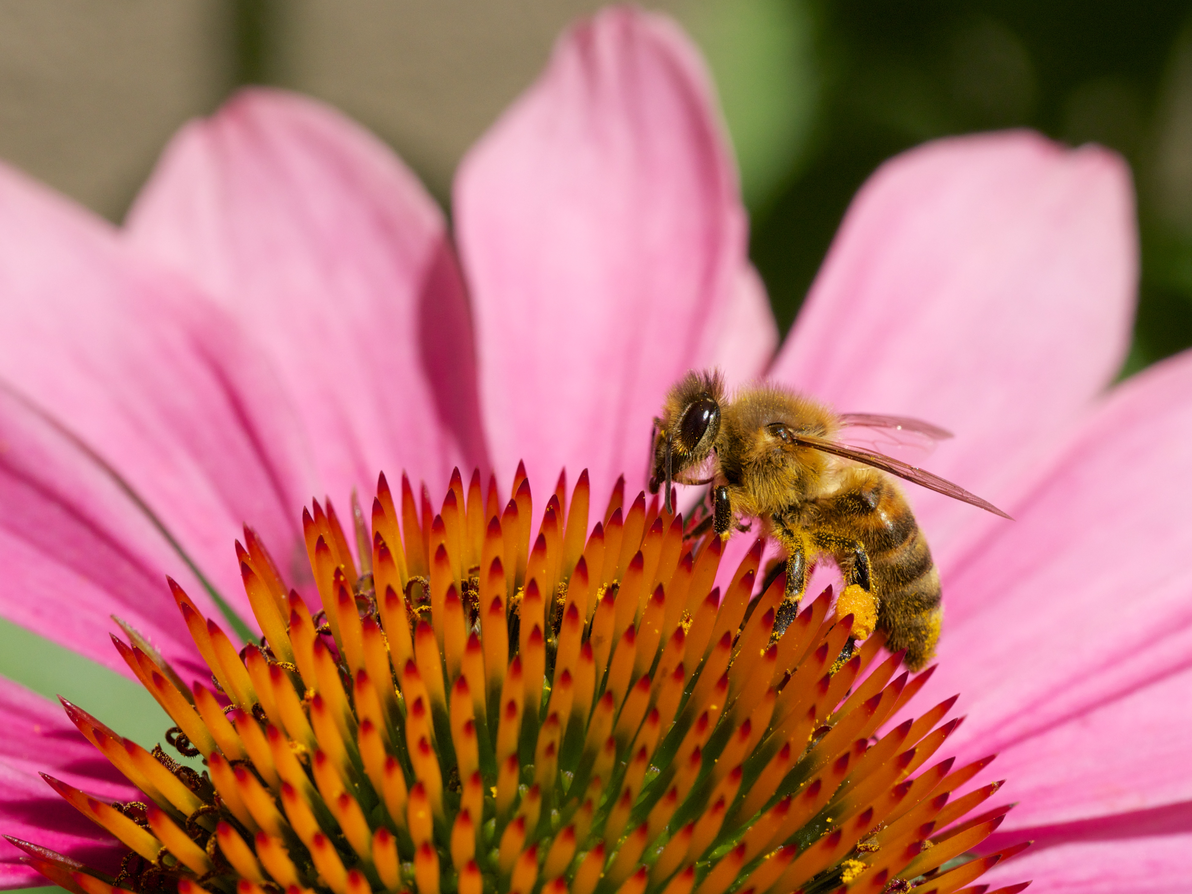 Apis melifera (Apidae) on an Echinacea